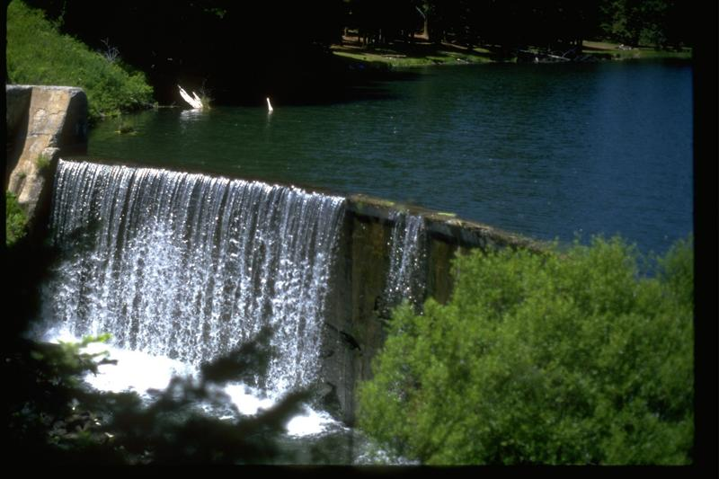 Hyatt Dam, Jackson County, Oregon, photo by the Bureau of Land Management, National and State Photo Library